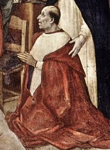 Detail of